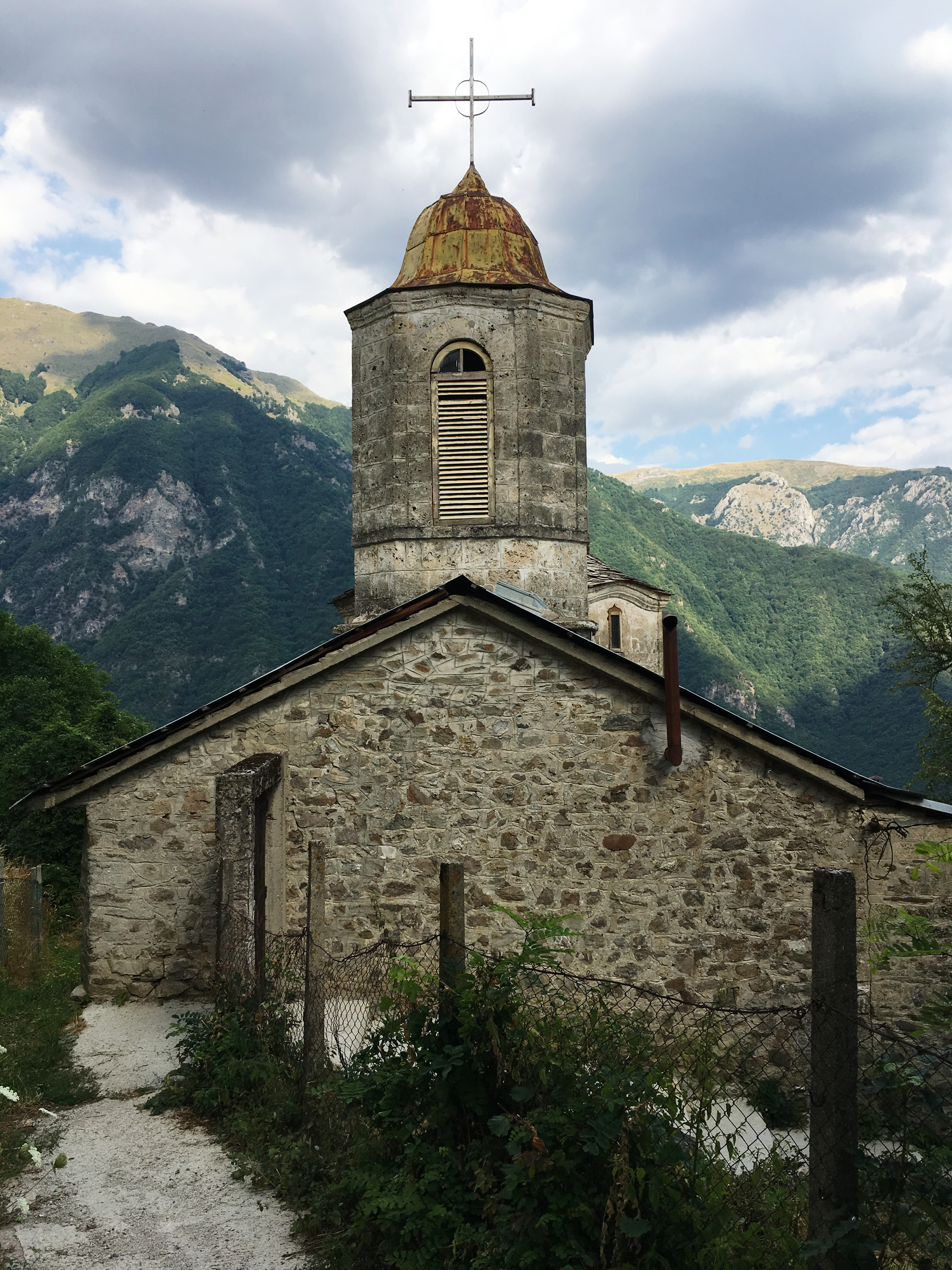 St. Achillius Church in the village of Trebište